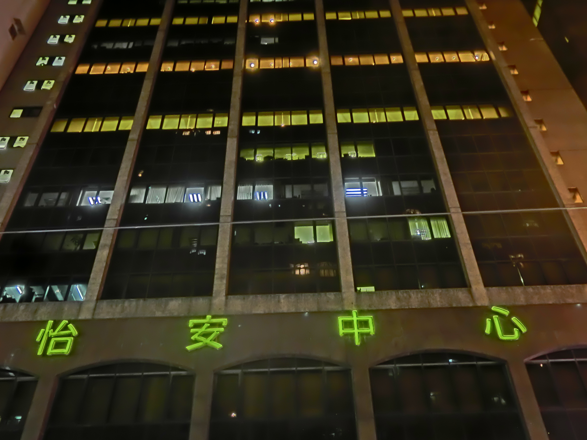 怡安中心 Greenwich Centre, Fortress Hill, North Point, Hong Kong